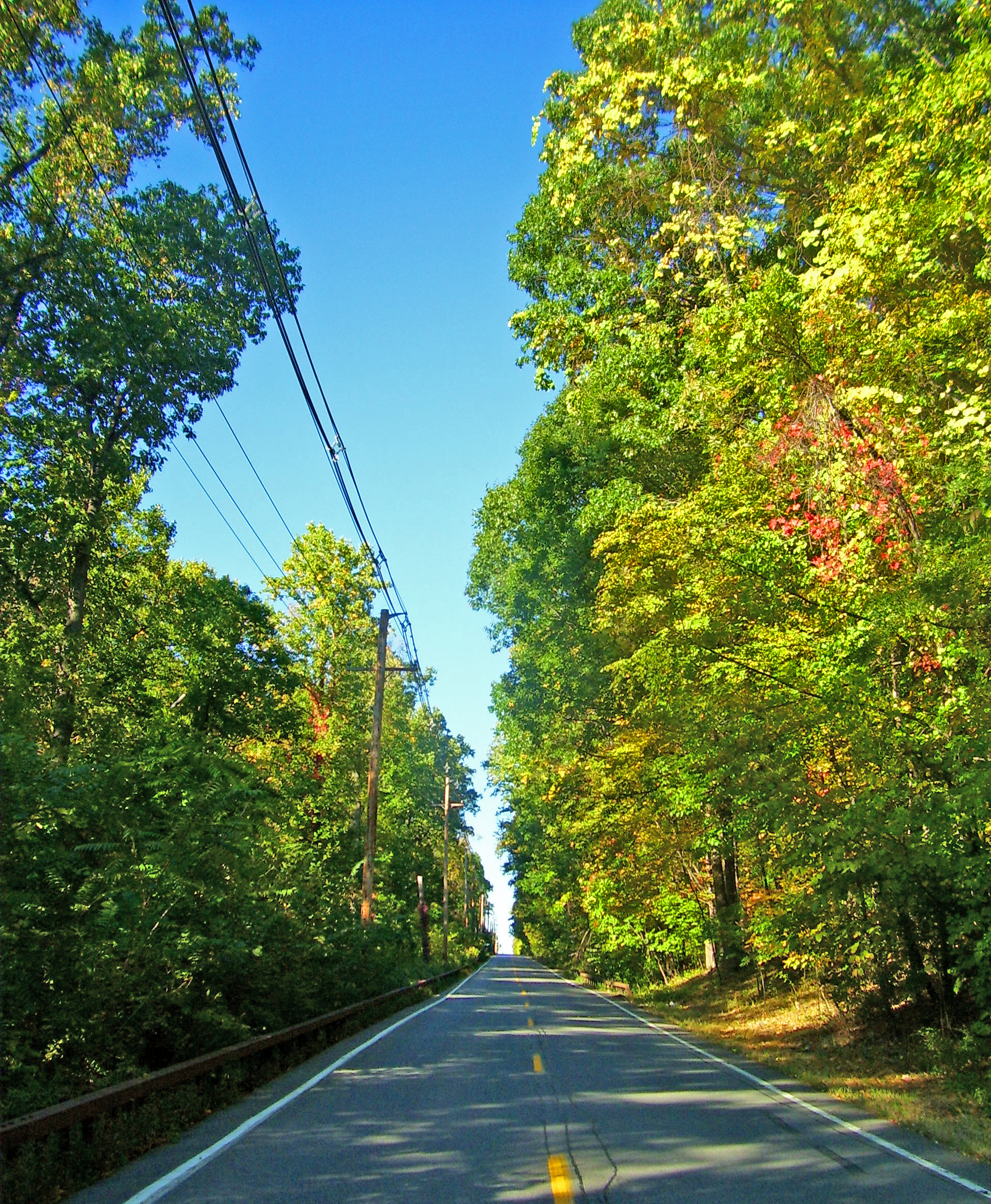 Looking north along NY 9D in a wooded area south of Beacon, NY, USA